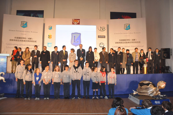 License Approval Annoucement Ceremony